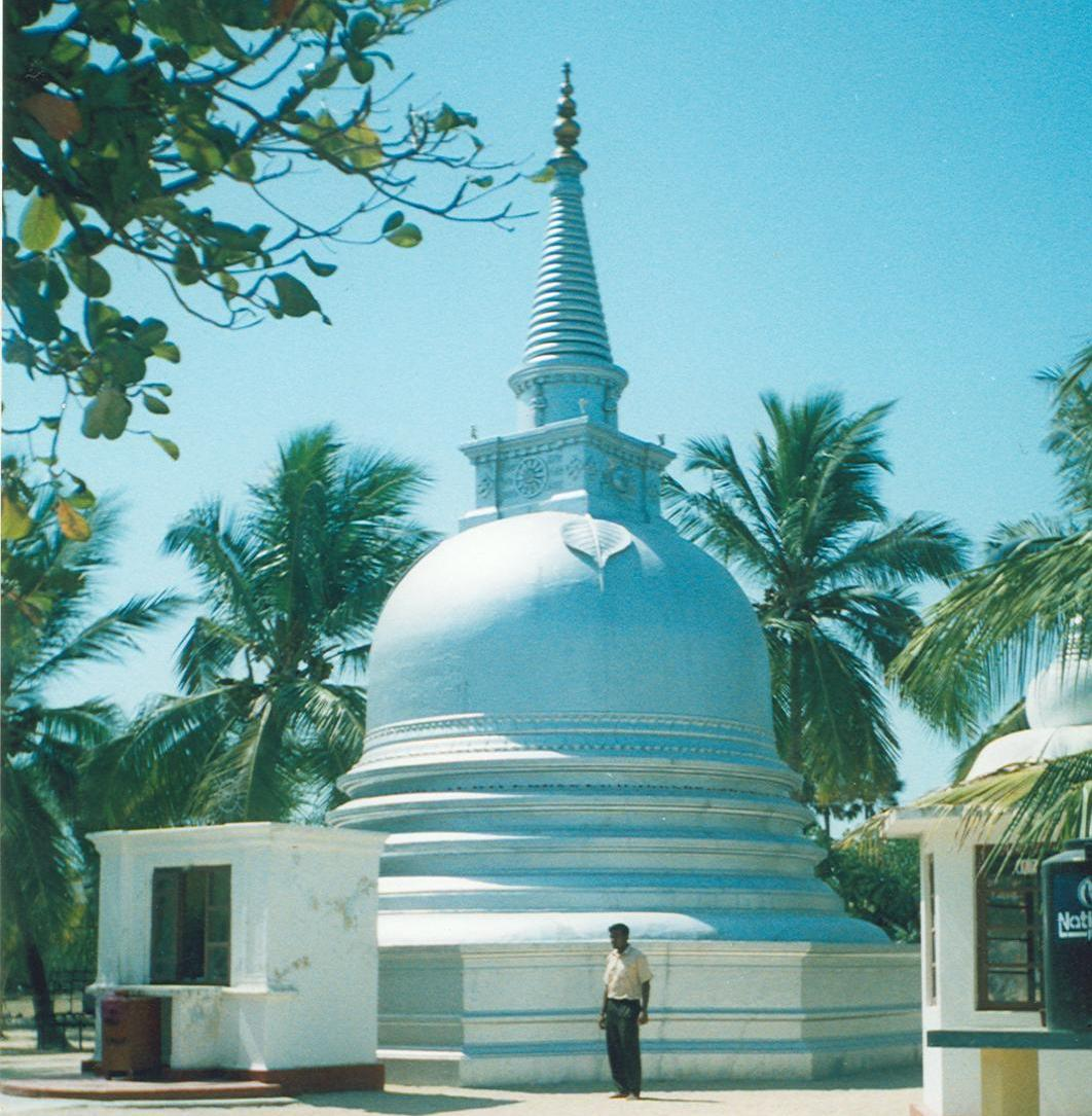 Screen shot Nainathivu Naha Vihara